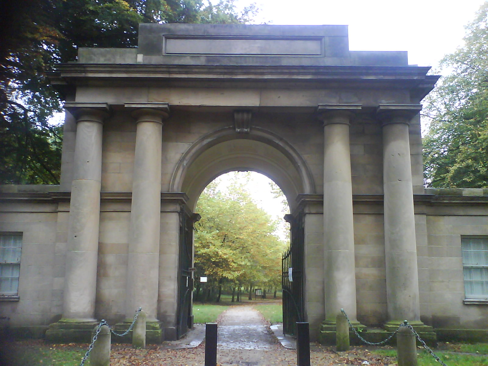 Grand Lodge, Heaton Park, Manchester